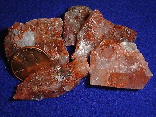 Potash with a US penny for color and scale.